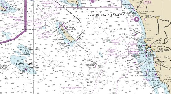 clip of San Diego to San Francisco Bay chart 18022